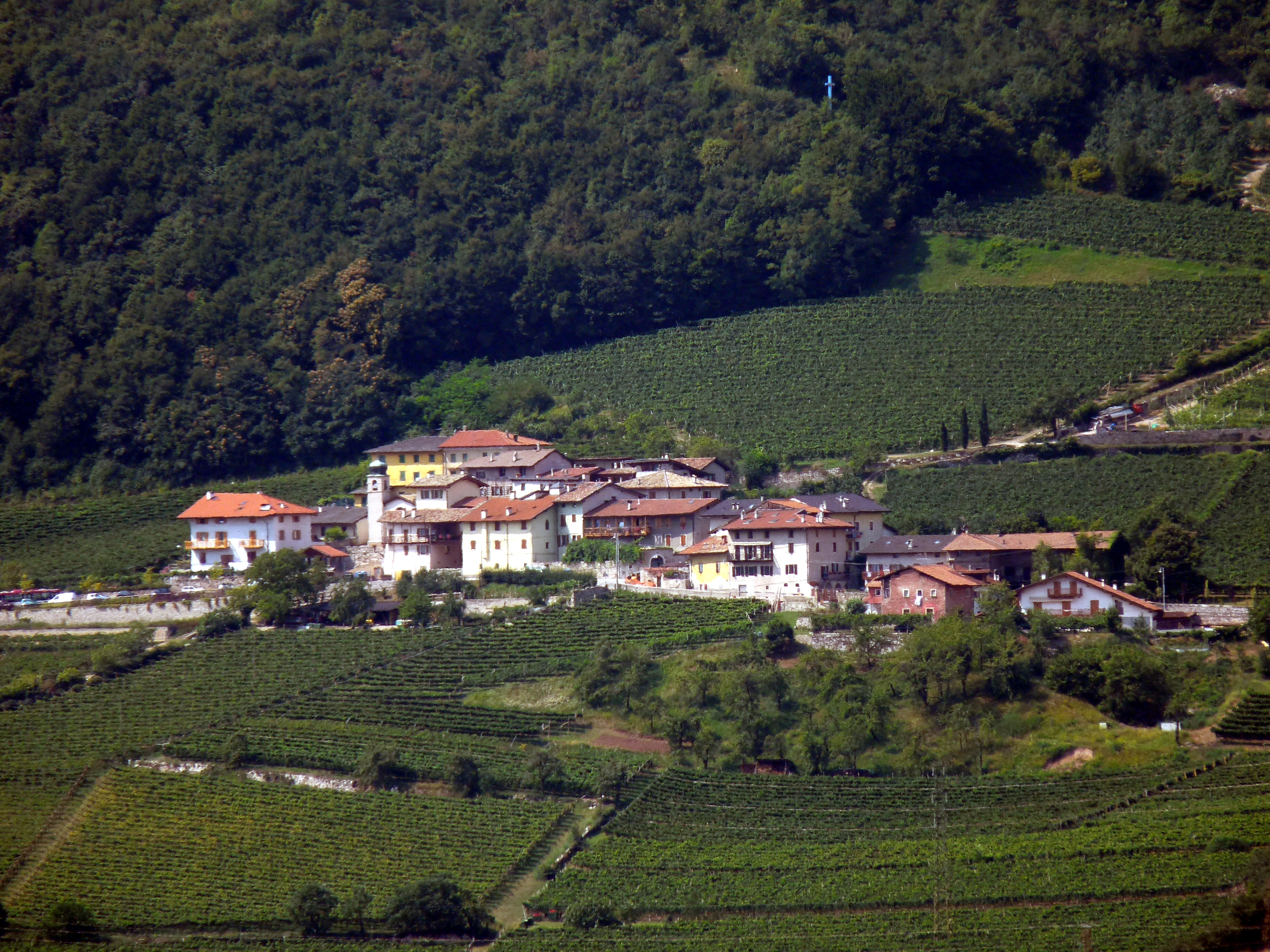 Trento (Italy): the Belvedere village, northern Ravina